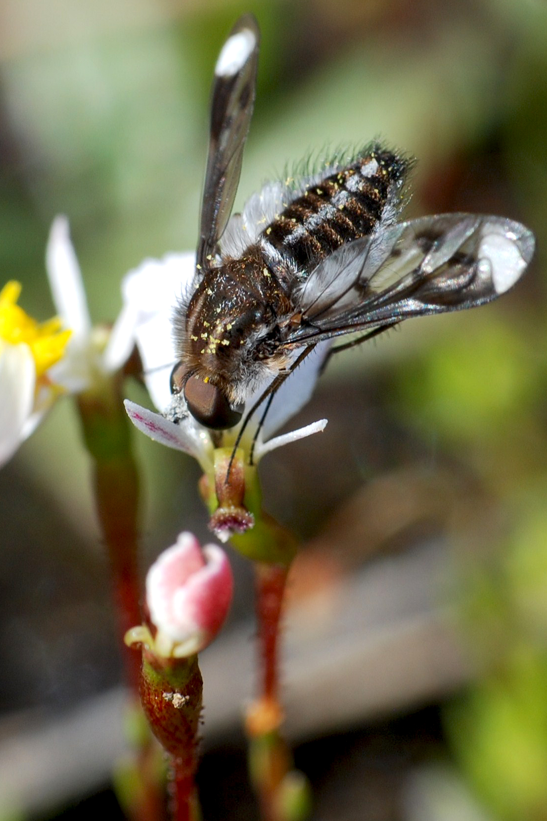 One of three species of pretty beeflies were feeding on tiny Stylidium around the edge of a granite rock.